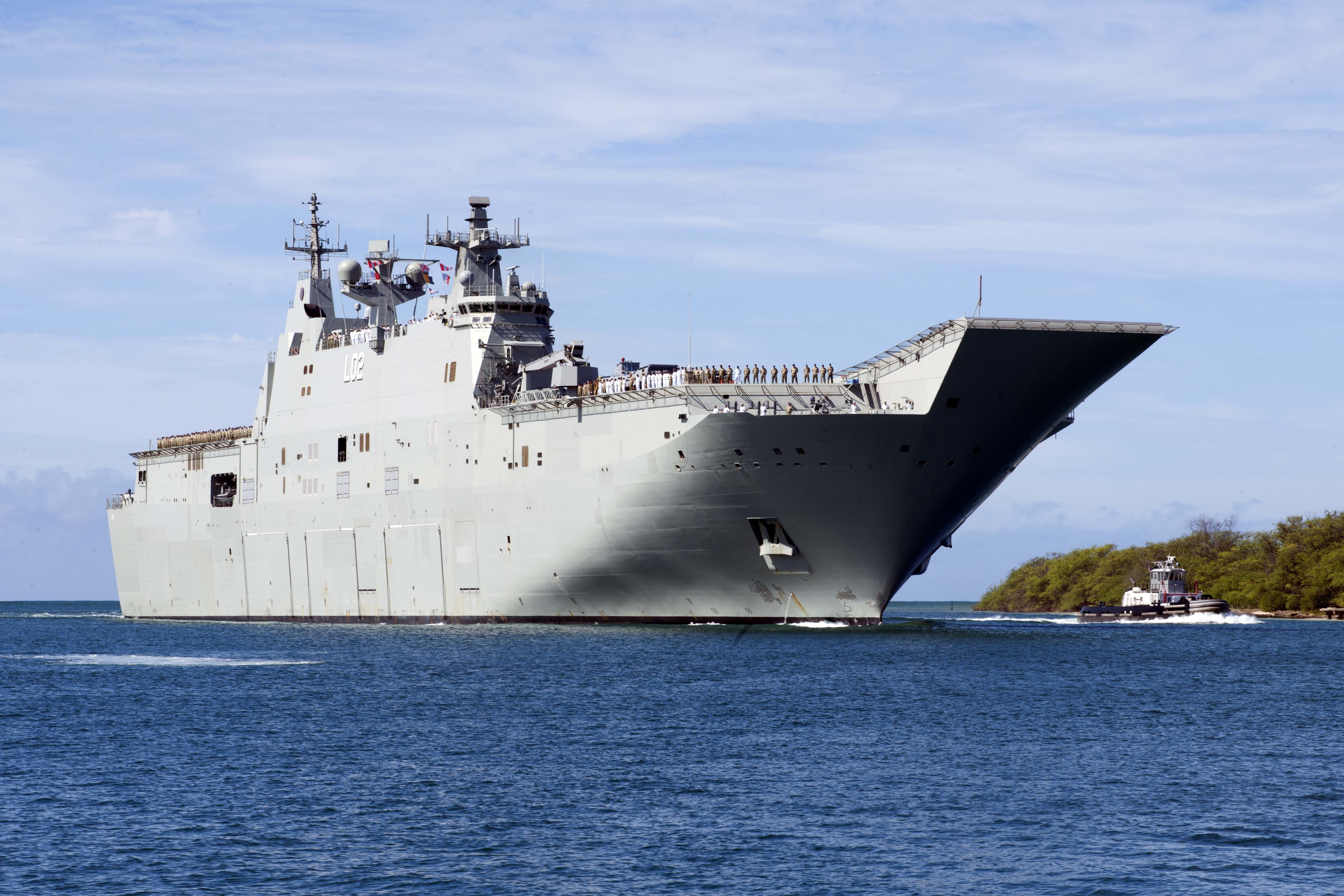 Royal Australian Navy LHD, HMAS Canberra (L02), arriving at Pearl Harbor for RIMPAC 2016